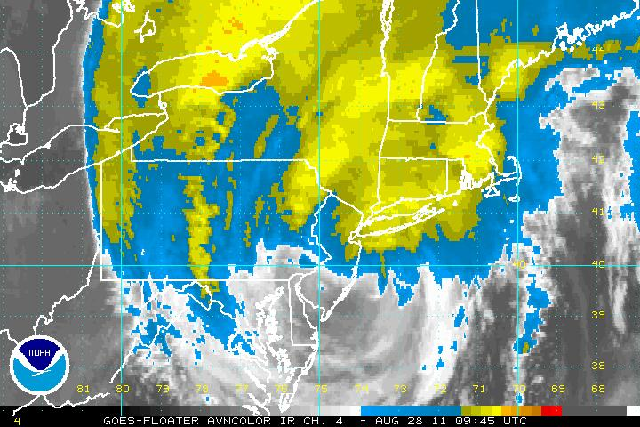 Infrared satellite image of Hurricane Irene shortly after making landfall near Little Egg Inlet, New Jersey on the morning of August 28, 2011. Winds at this time were estimated at 75 mph (120 km/h).